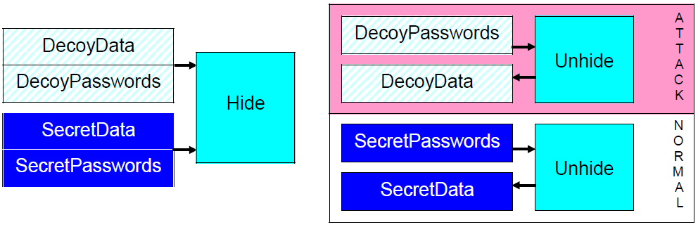 OpenPuff v3.30 Architecture - 14